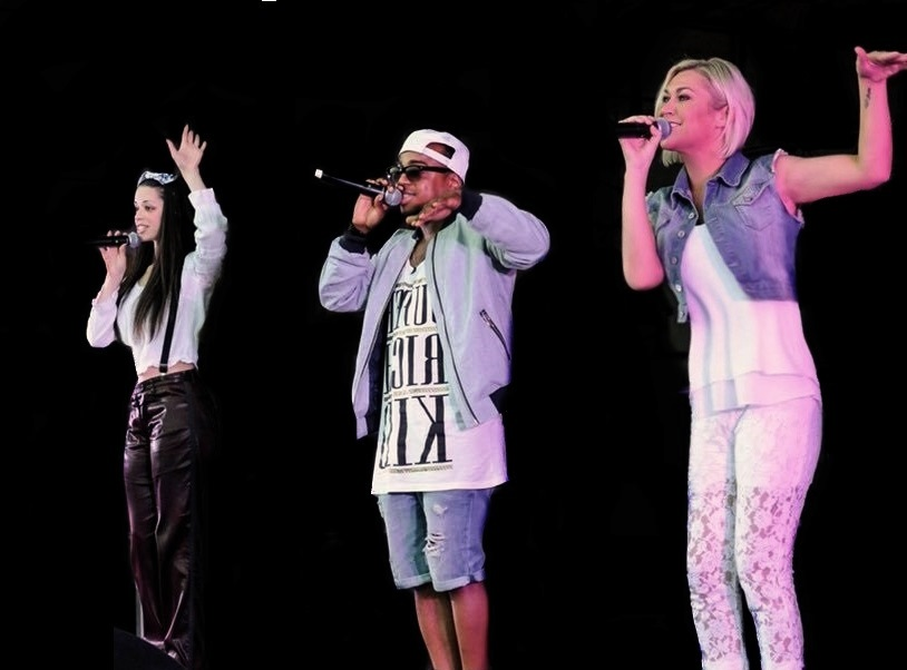 S Club 3 at ScotFest